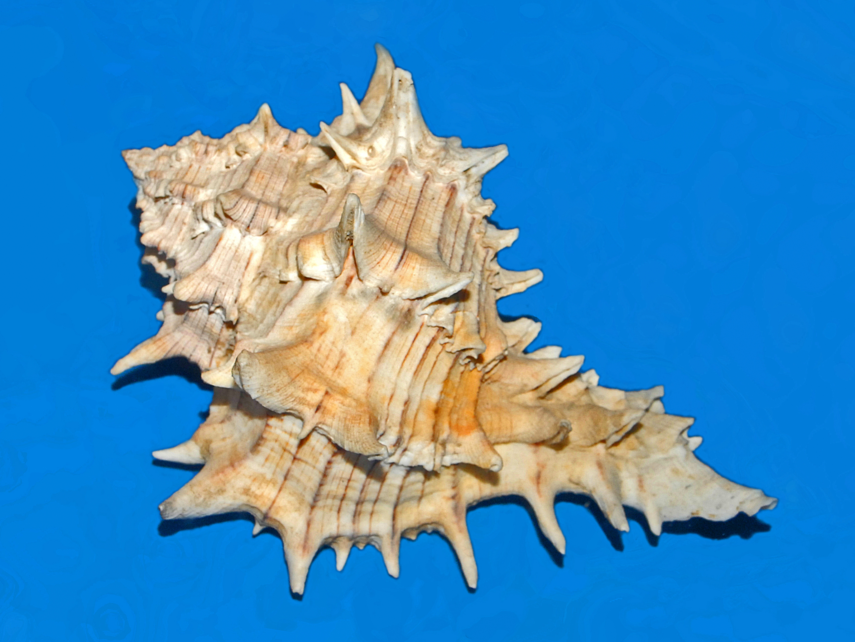 A Shell of Hexaplex fulvescens from the Antilles, on display at the Museo Civico di Storia Naturale di Milano